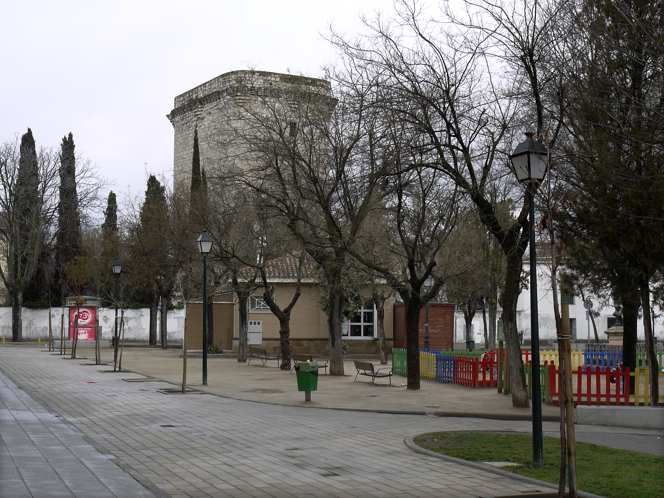 Pinto, Madrid, Spain. Tower of Eboli.